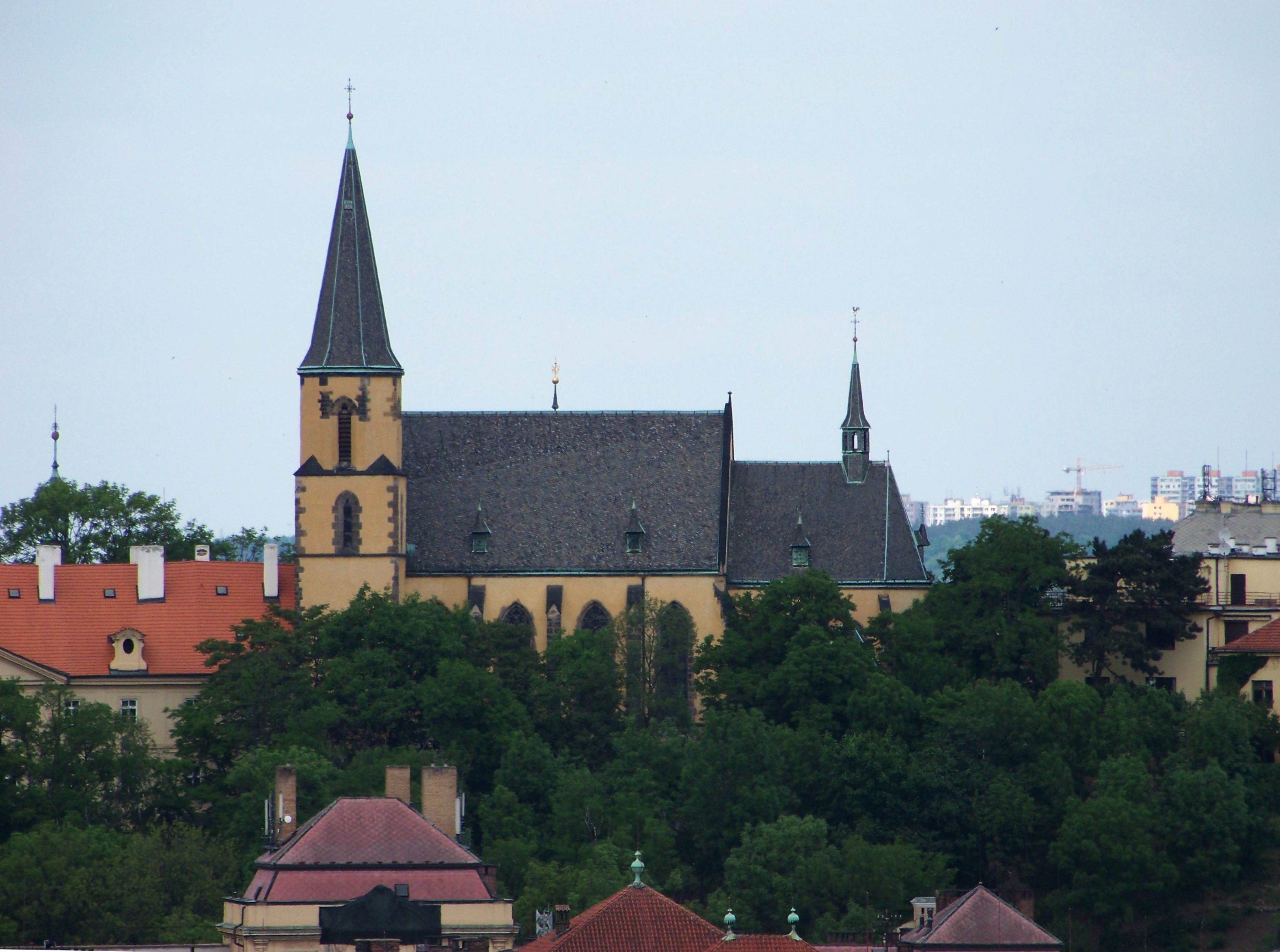 Prague-Nusle-Pankrác, the Czech Republic. A view from the Congress Centre to the Saint Appolinaris Church at the New Town.